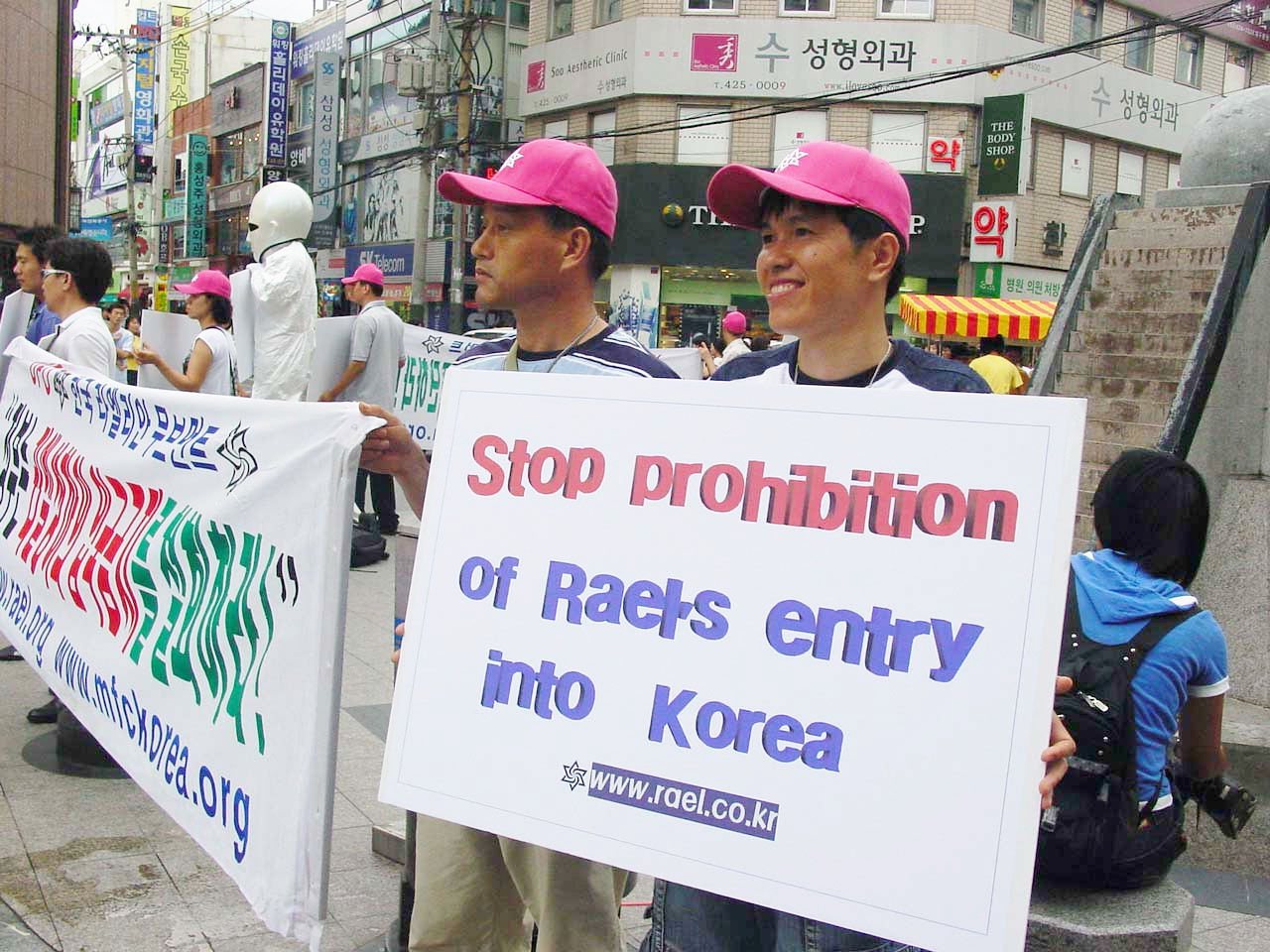 Image Specific: 27 Aug 2006 Daegu Korea Raelian Activity